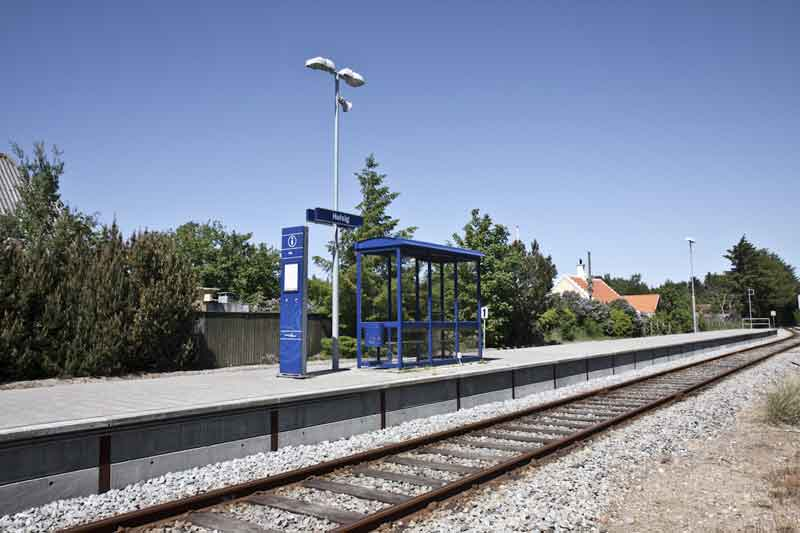 Hulsig station, situated app. 27 km north of the danish city Frederikshavn, may 2009